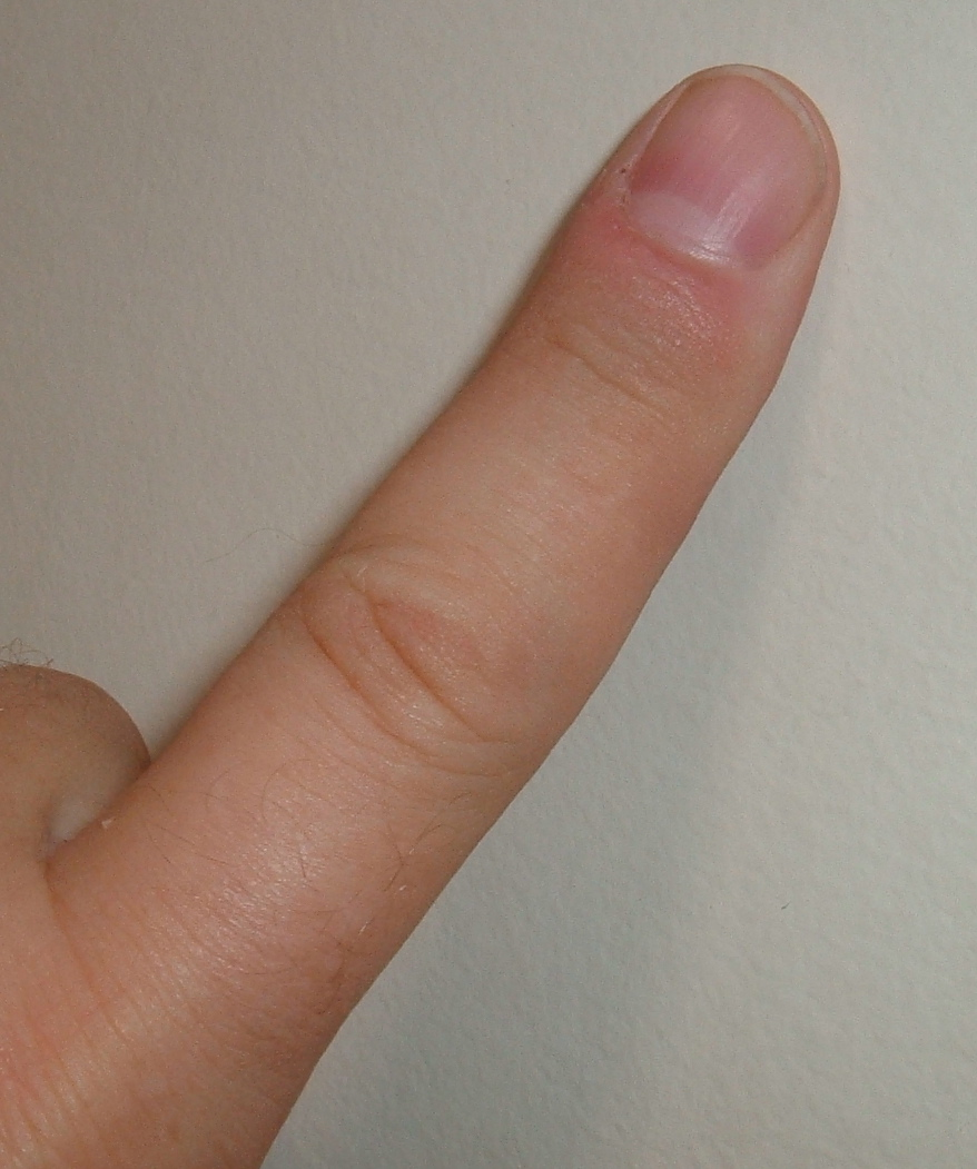 Adult human left index finger (author's). One of a series of common objects I photographed in the summer of 2005 to illustrate Basic English picture wordlist. --agr 21:08, 3 August 2005 (UTC)